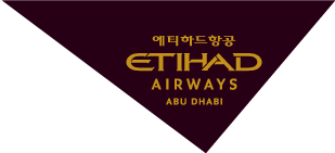 Etihad Korean logo